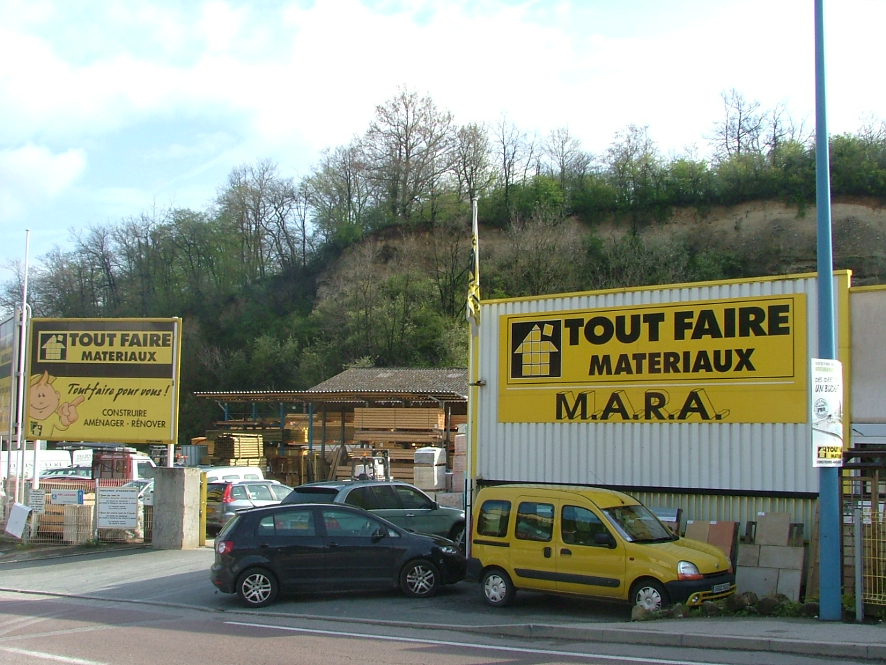 M.A.R.A in Sathonay-Camp